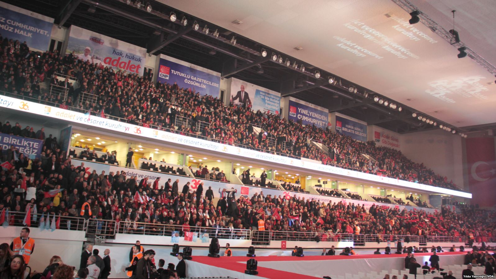 CHP 36th Ordinary Congress